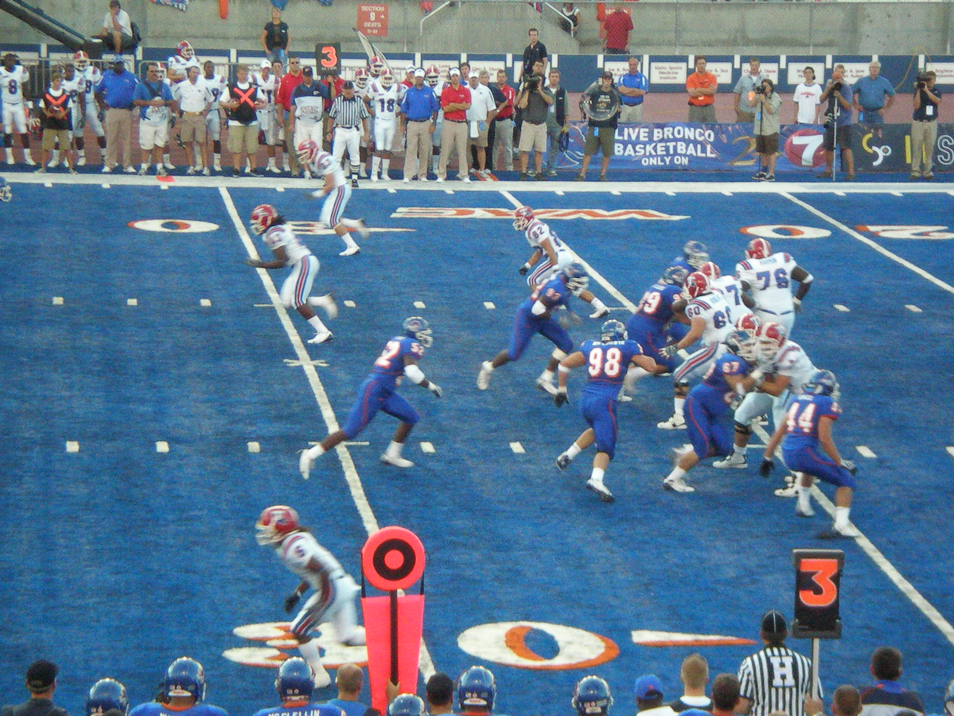 Boise State Vs Louisiana Tech on October 1st, 2008.